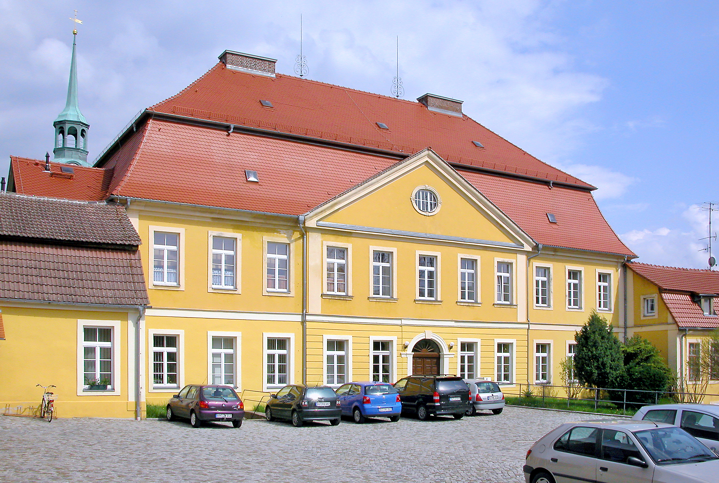 03.05.2008 02681 Wilthen (Doberschau-Gaußig), St.-Barbara-Platz 3 (GMP: 51.100473,14.400275): Schloß, 1741 erbaut unter Christiane Sophie von Below. Heute befindet sich im Herrenhaus die Caritas-Sozialstation St. Barbara. Hofseite (Westen). [DSCN32685.TIF]20080503955DR.JPG(c)Blobelt